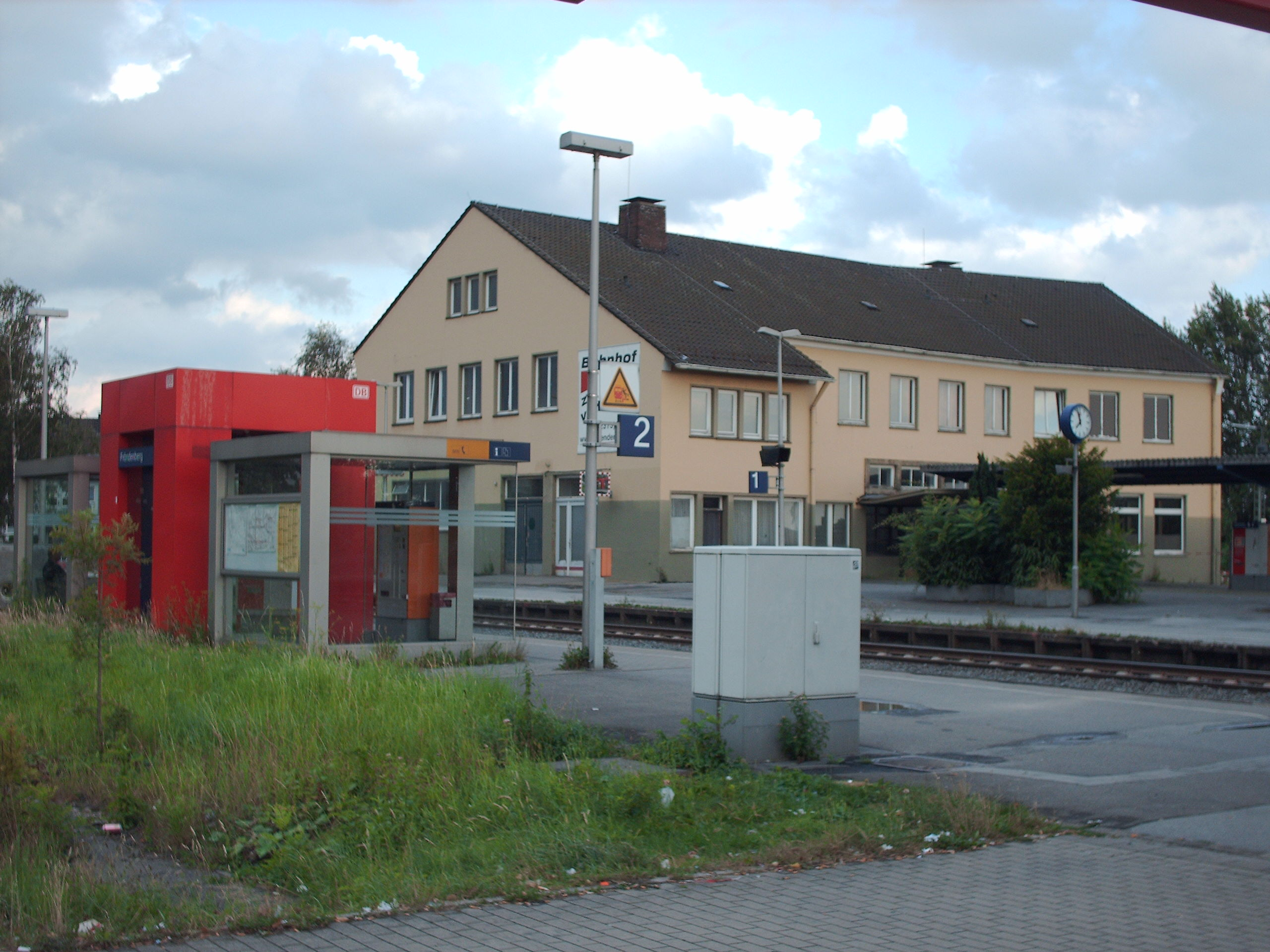 Fröndenberg station, Fröndenberg, Germany check usage